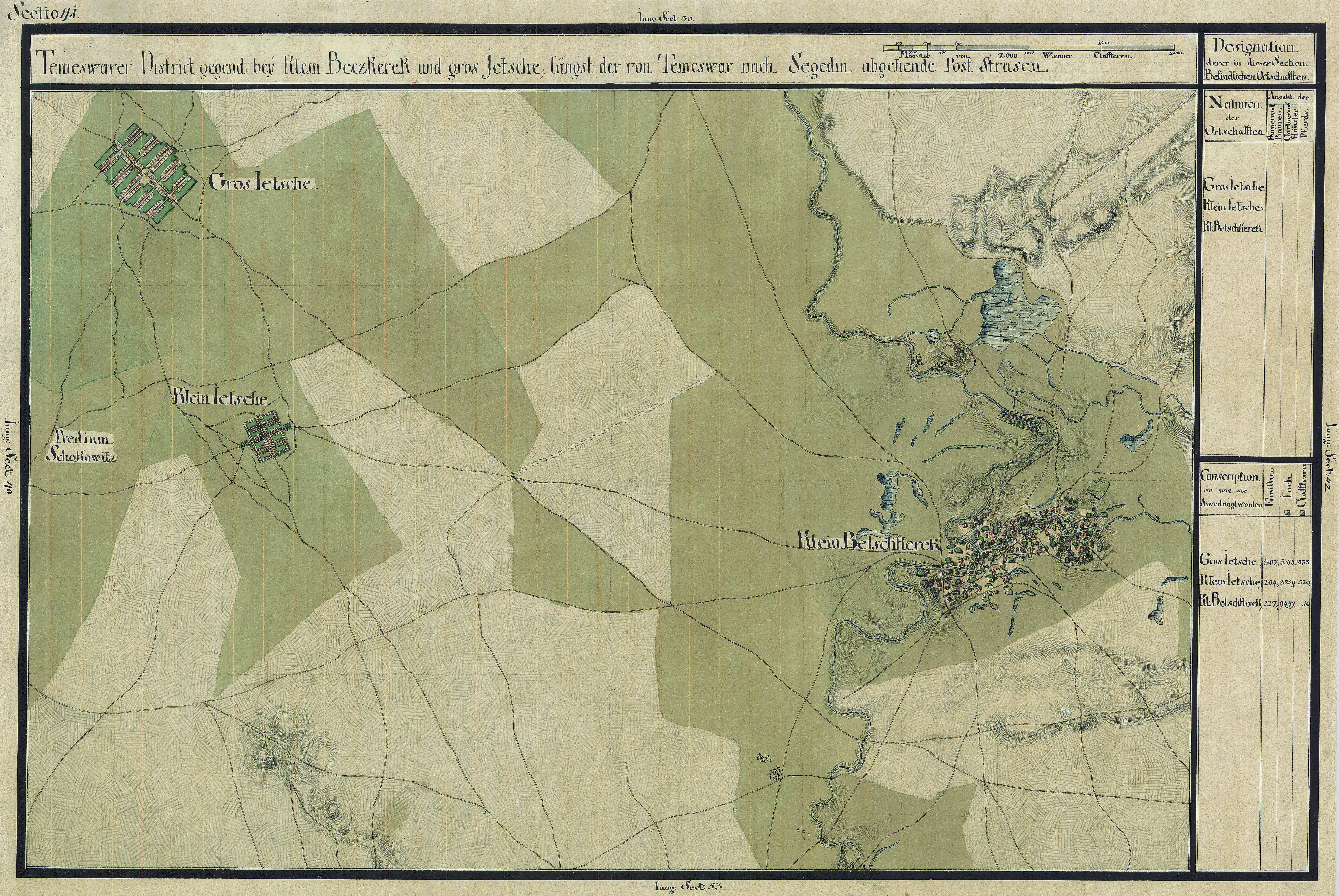 The Banat region in the cadastral maps: Josephinische Landesaufnahme, 1769-72. Josephinische Landaufnahme pg041